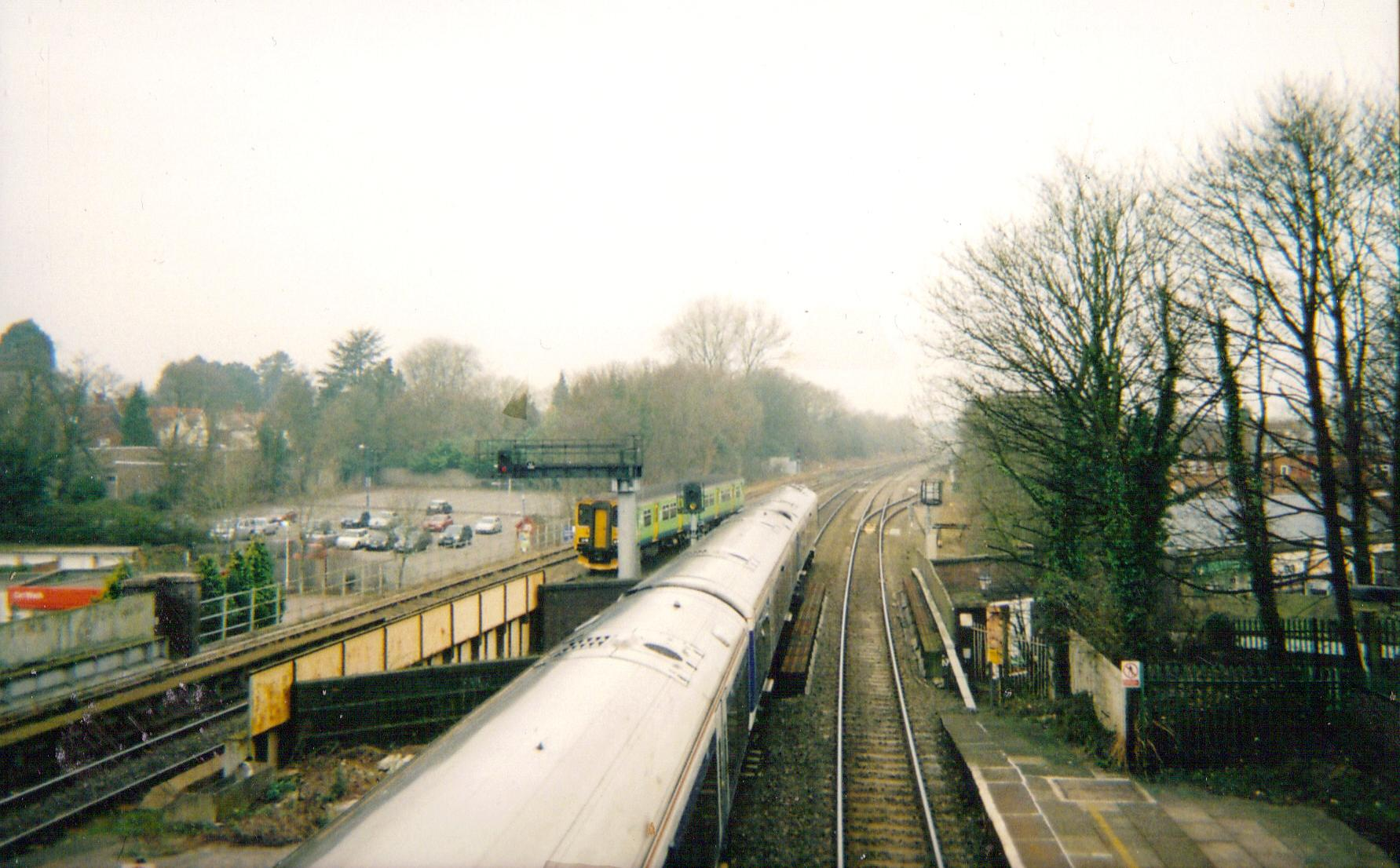 A picture of a north facing over view of Dorridge station in 2010.